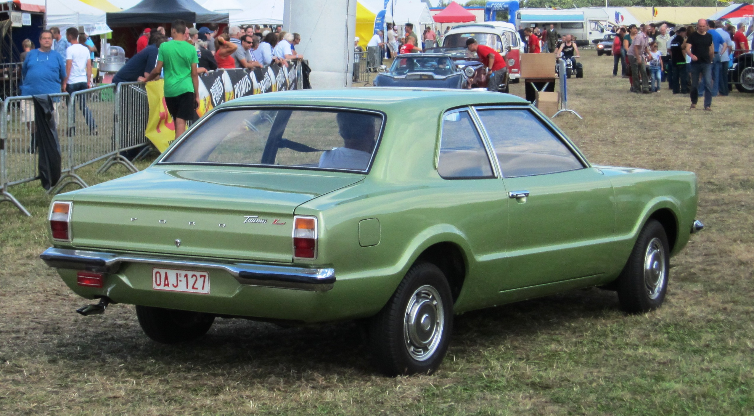 Ford Taunus 1.3 TC ca 1974 Schaffen-Diest 2012.jpg